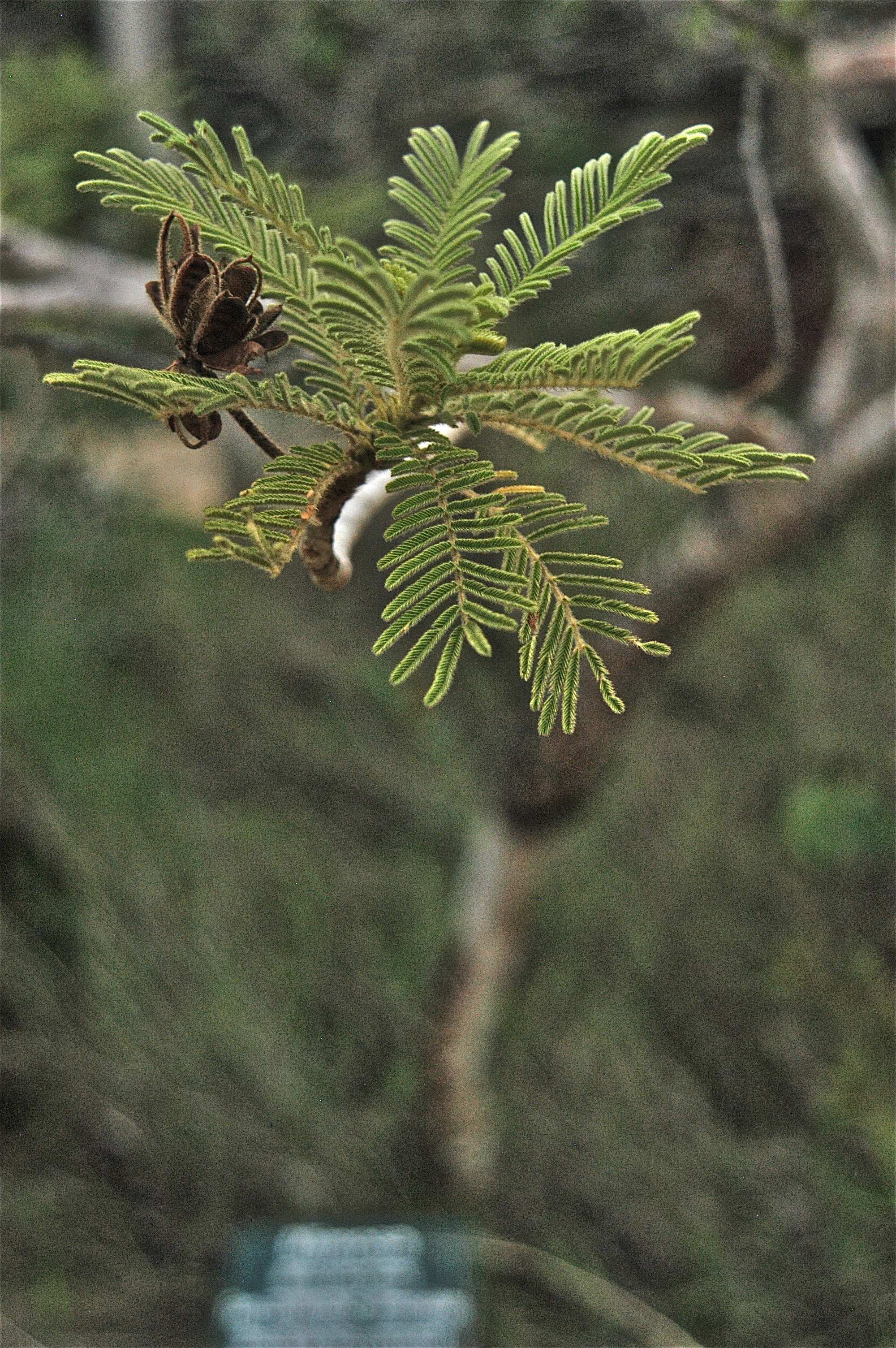 Mimosoideae genre from leguminosae family